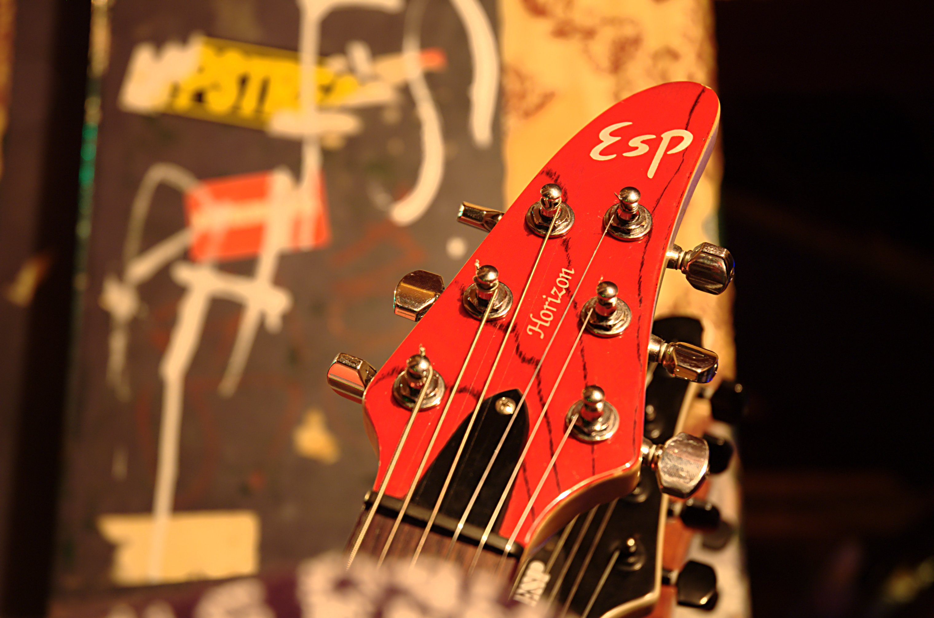 The headstock of an electric guitar owned by the band Judinala at a gig in Melbourne